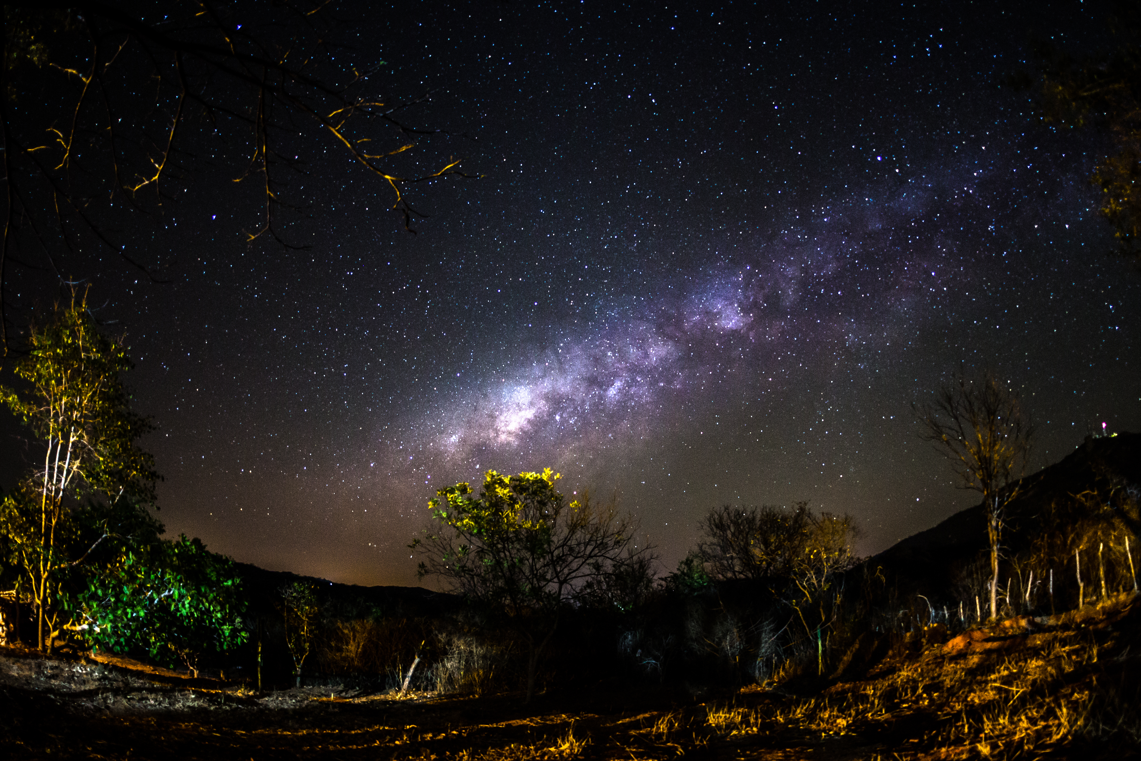 The image depicts the Milky Way framed by the interior landscapes. Long exposure single frame.